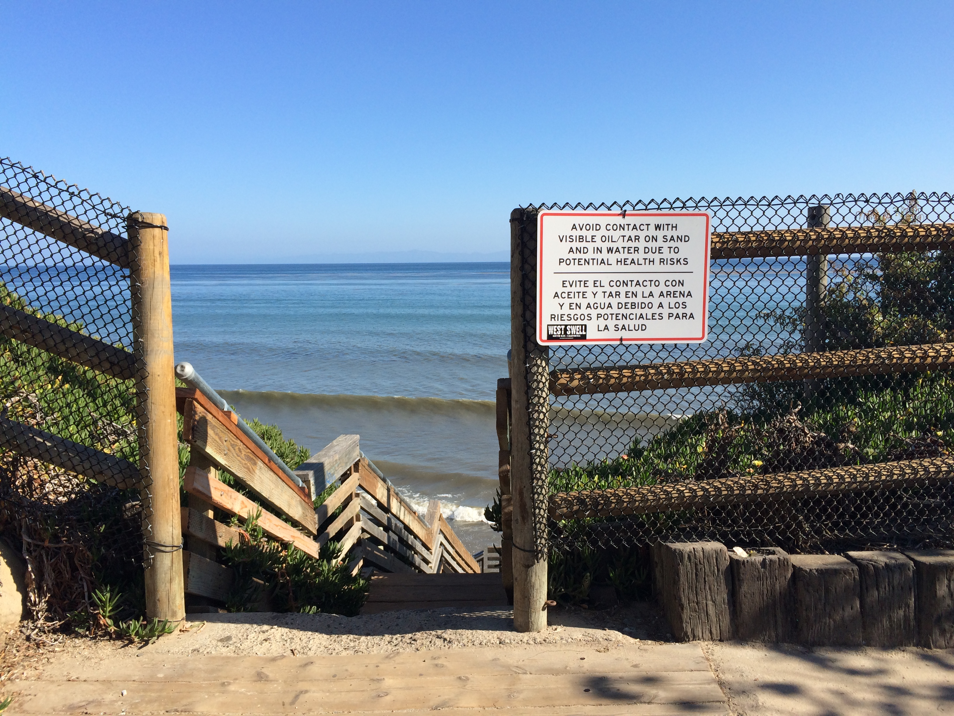 "Avoid contact with visible oil/tar on sand and in water due to potential health risks", a sign posted at a beach access point in Isla Vista, California, after the Refugio Oil Spill in May 2015.